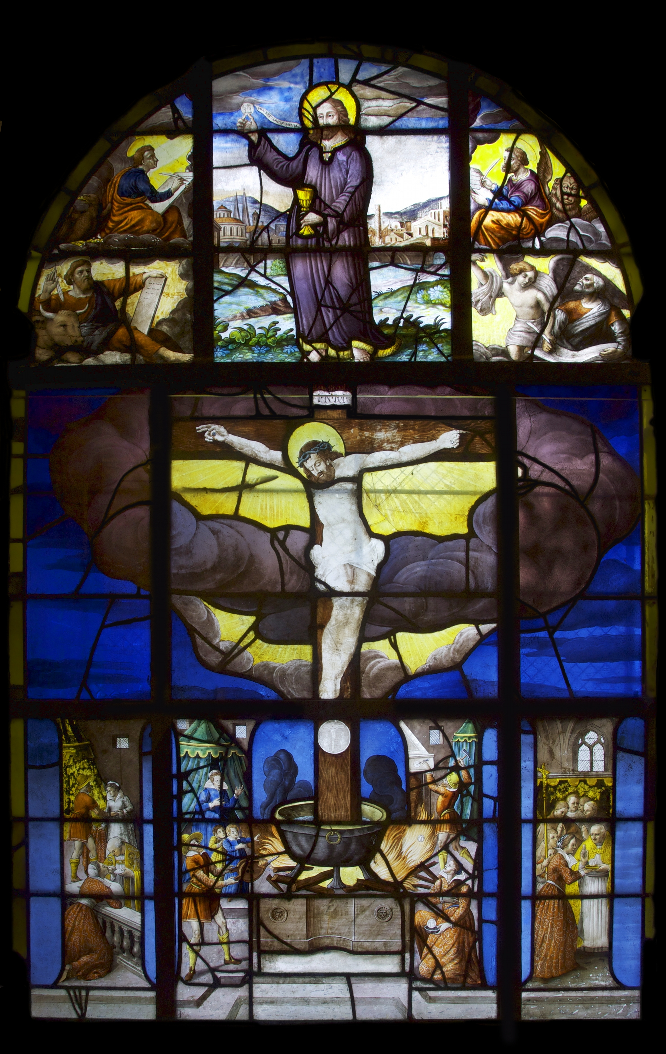 stained glass window, crucifixion, church Saint-Etienne du Mont, Paris.